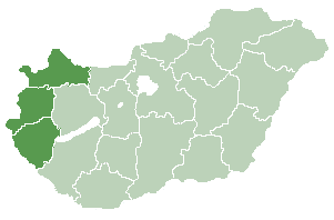 Nyugat-Dunántúl region of Hungary.